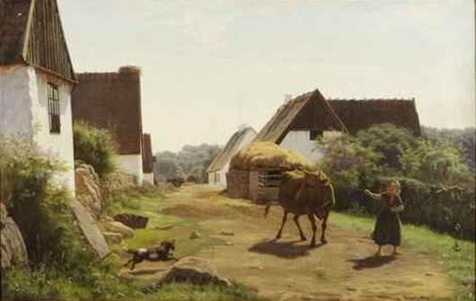 Scene with Girl and Cow